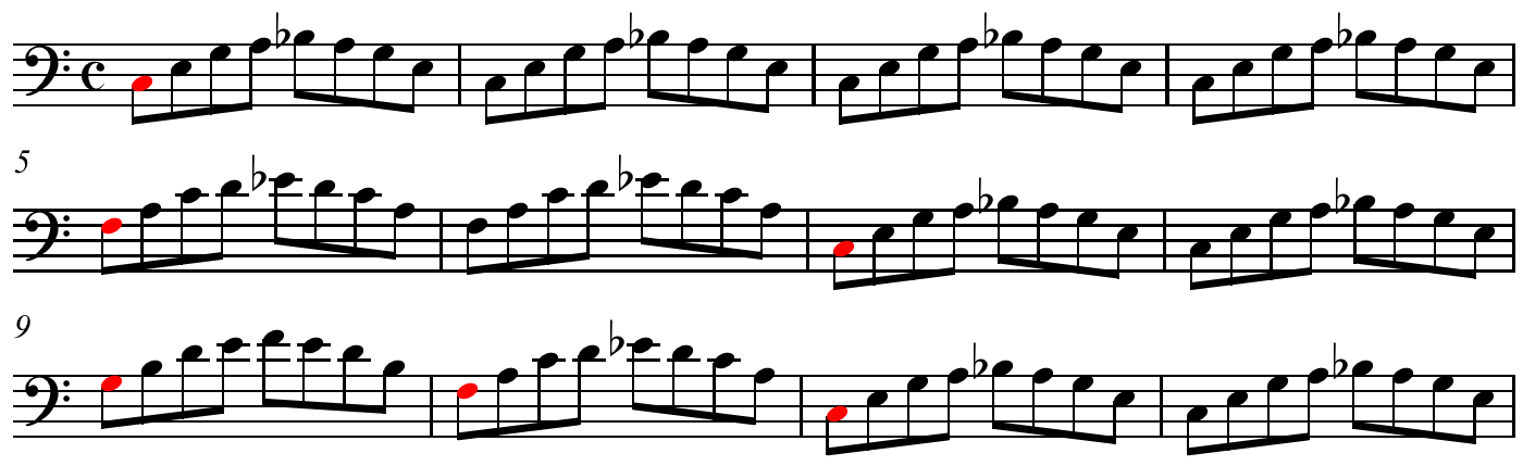 Twelve bar boogie-woogie blues in C music score. Created by Hyacinth (talk) using Sibelius 5.